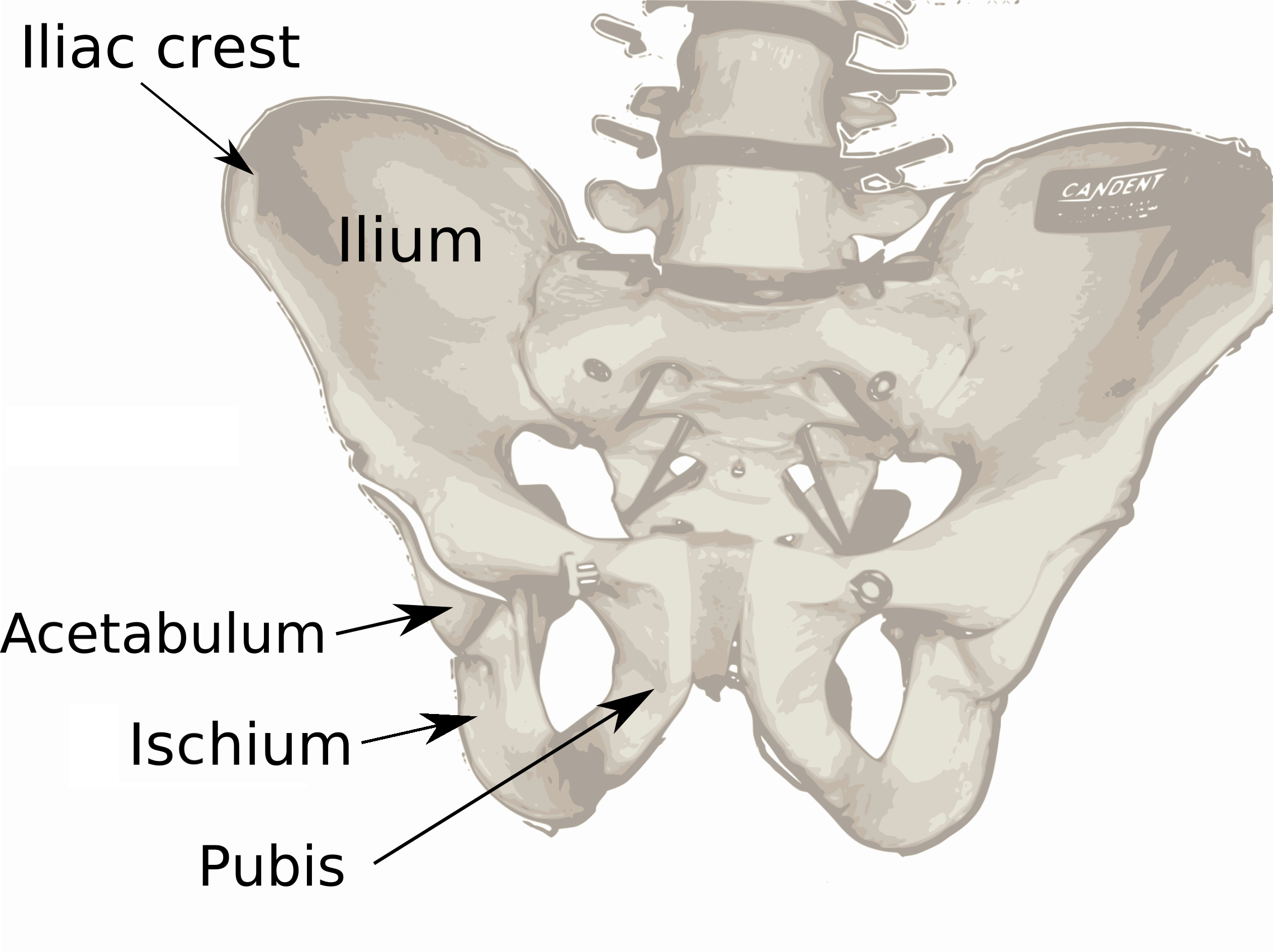 A labeled diagram of the human pelvis, created from a photograph I took of a model in a university anatomy lab. Traced and rendered using Inkscape 0.44.1